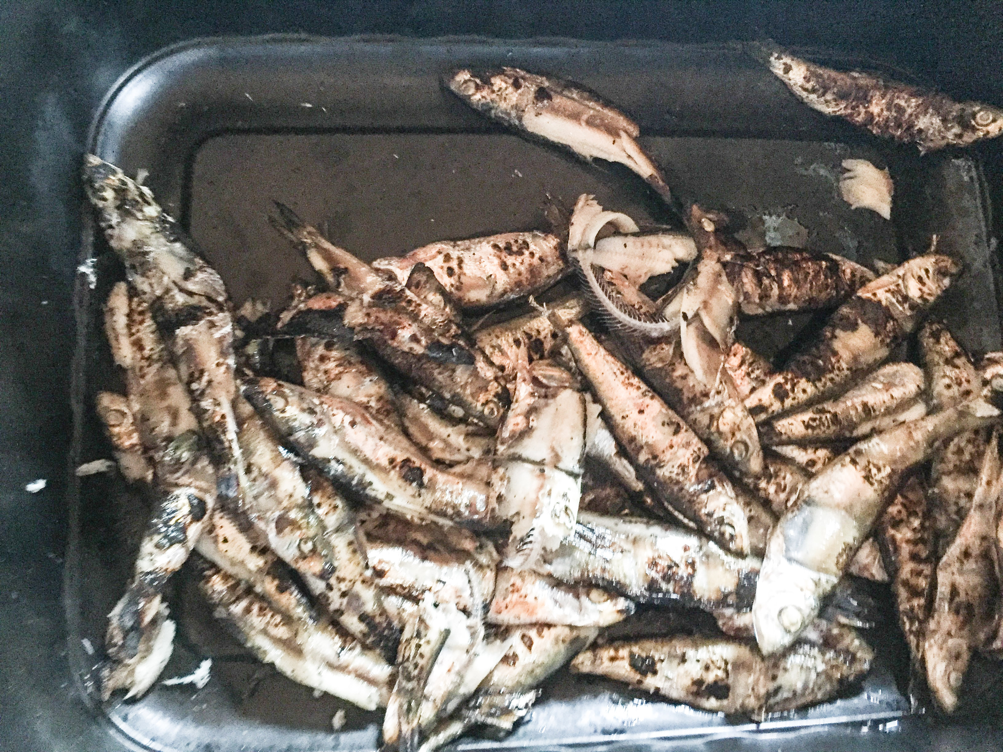 Broiled European sprat